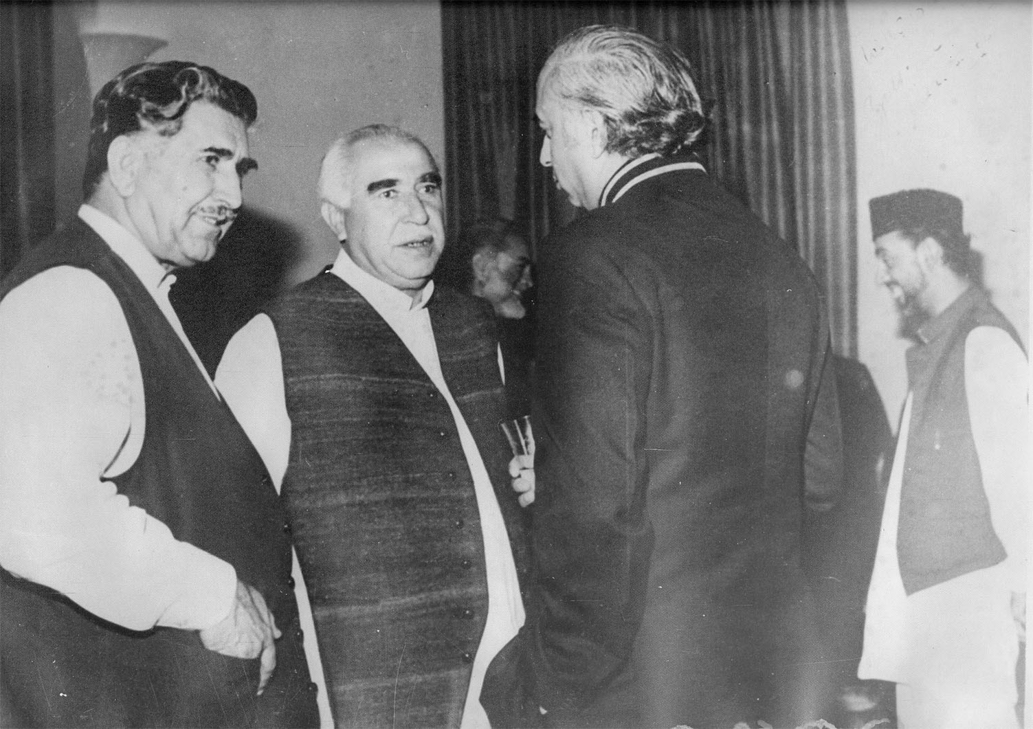 Education Minister Balochistan Gul Khan Nasir, Governor Ghaus Bakhsh Bizenjo, Prime Minister Pakistan Zulfiqar Ali Bhutto, Nawab Khair Bakhsh Marri and Chief Minister Balochistan Sardar Ataullah Mengal in Governor House Quetta.